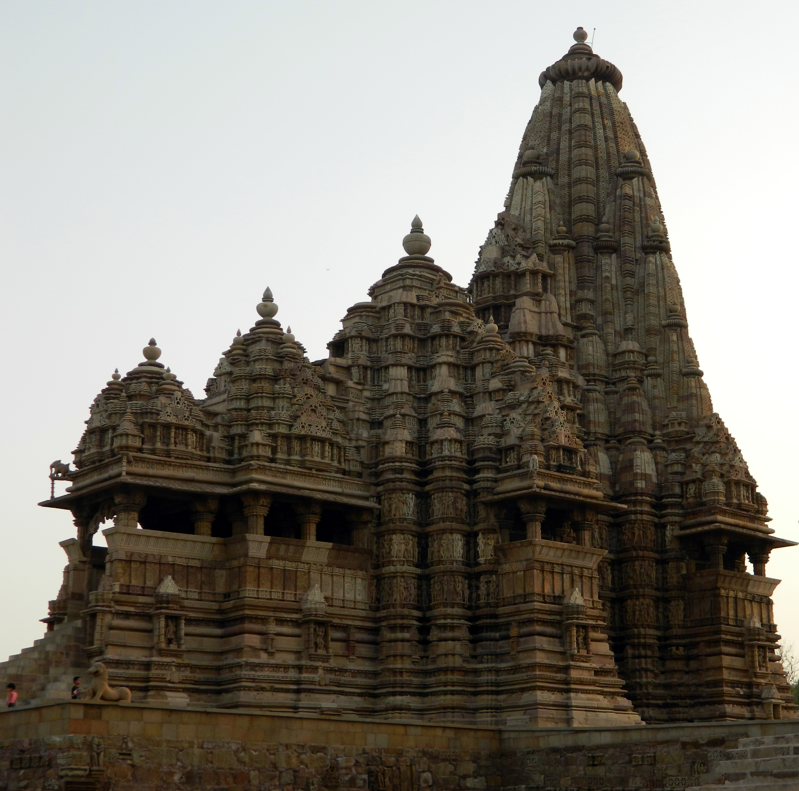 Kandariya temple